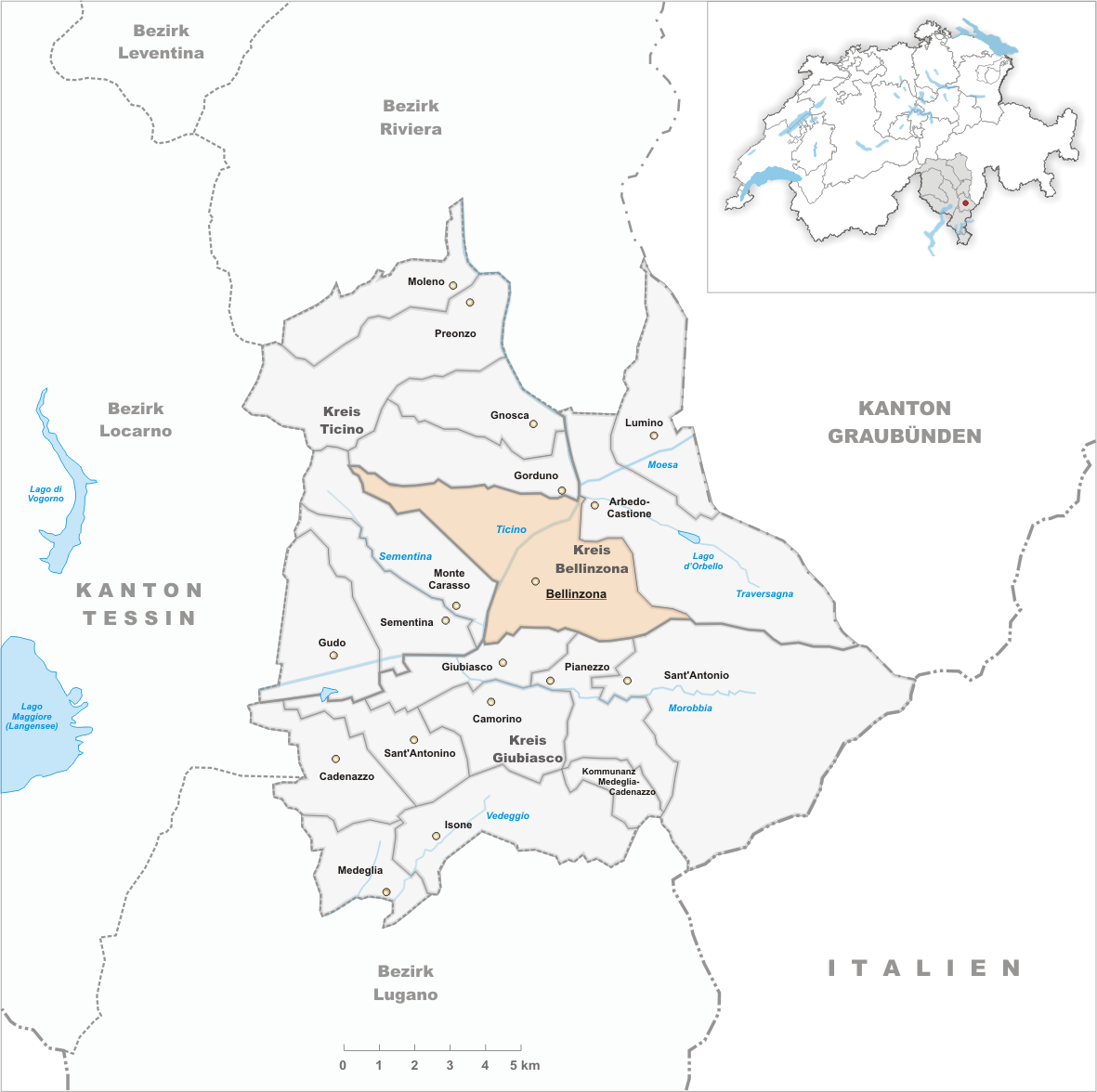 Municipality Bellinzona